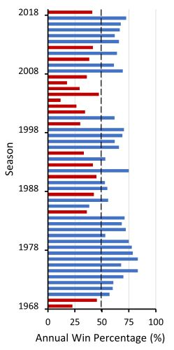 Chart displaying the St. Francis Brooklyn Terriers men's soccer team annual win percentage since 1968.